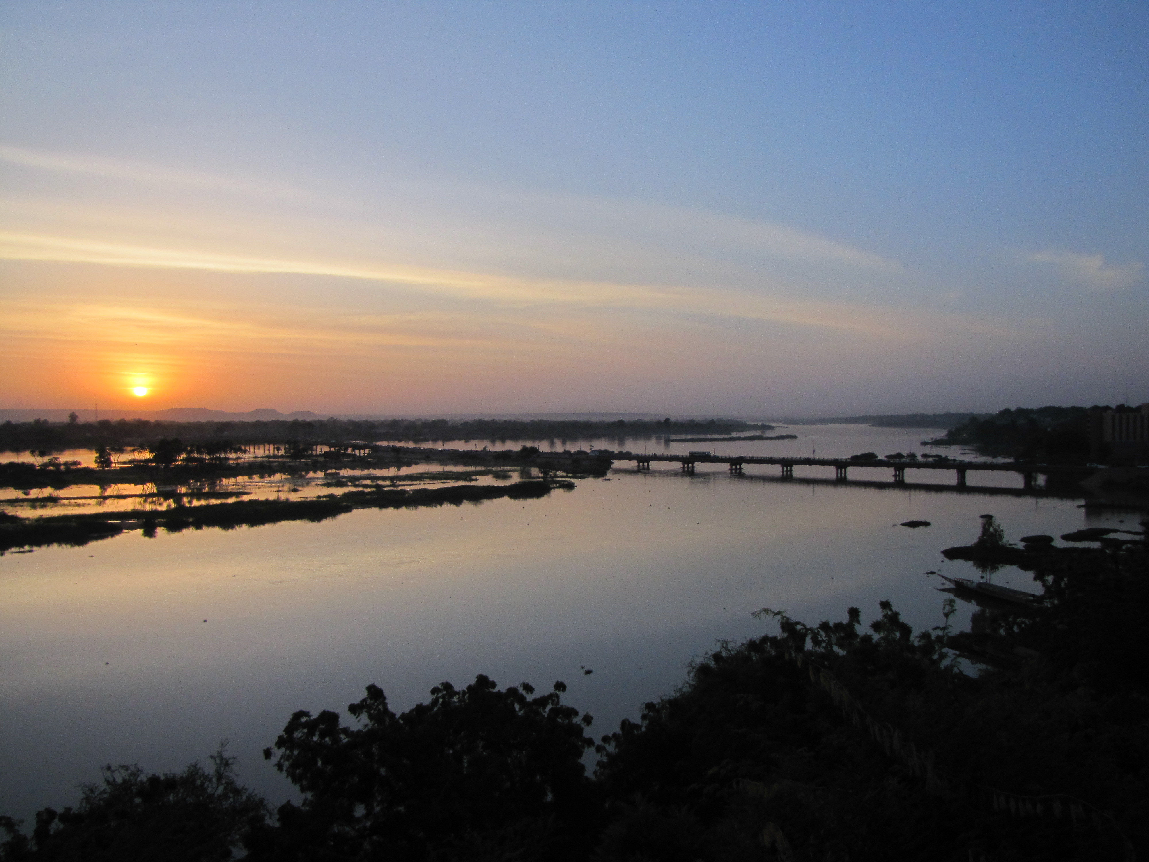 View from Niamey "Grand Hôtel"